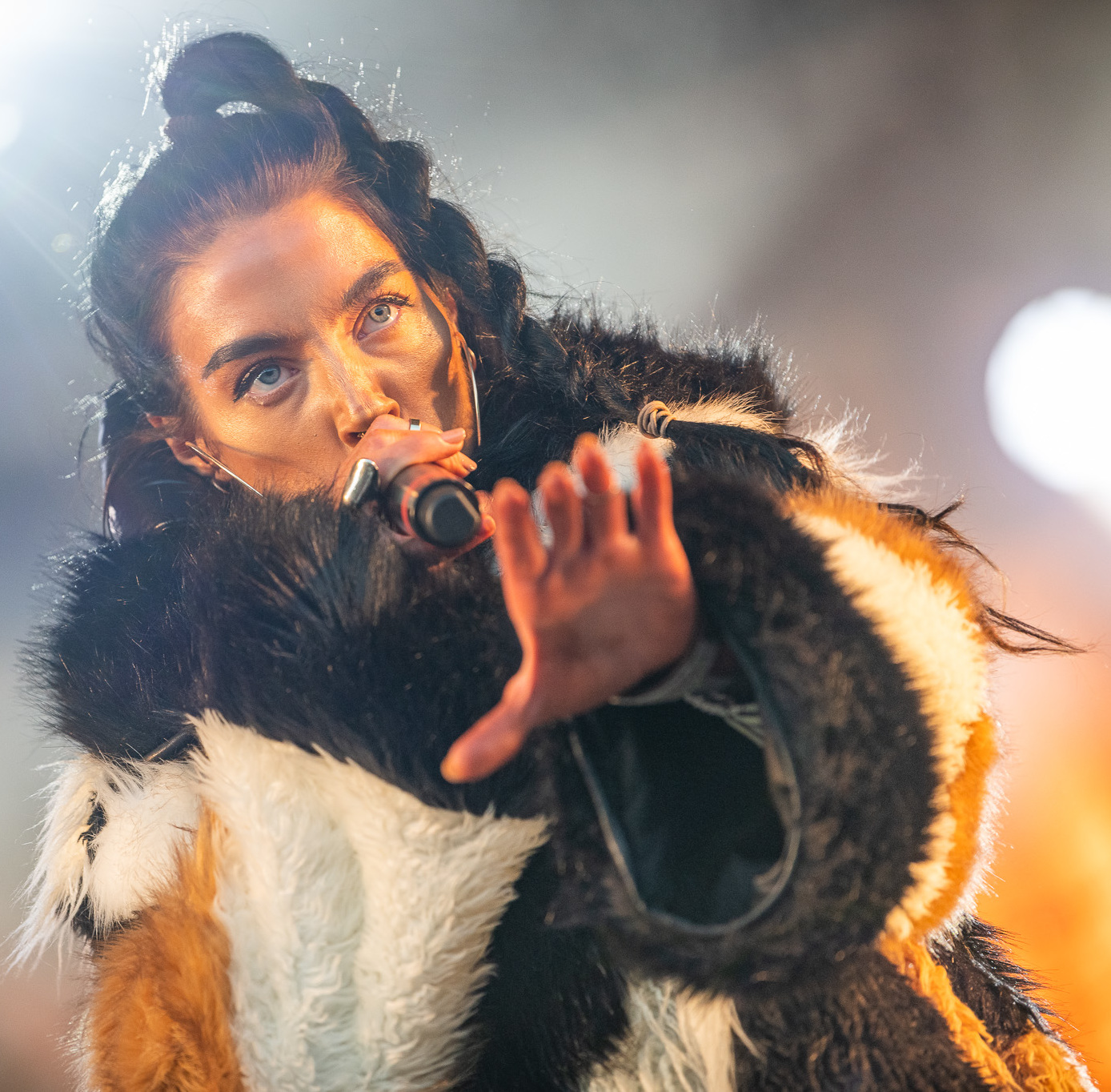 Maxida Márak on Riddu Riđđu 2019